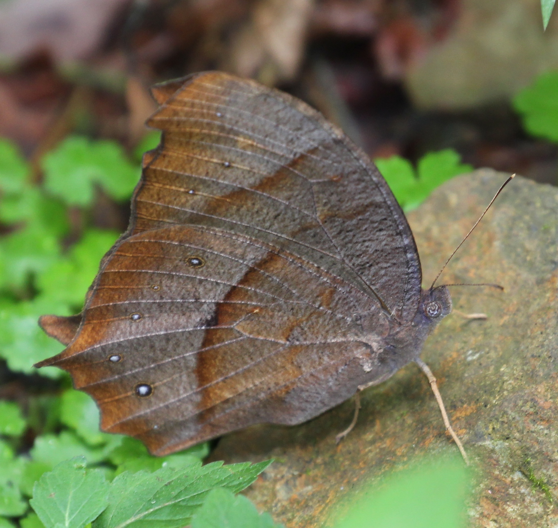 Melanitis phedima, female, in Mount Tonmaku, Yumihari Mountains, Shinshiro, Aichi Prefecture, Japan.